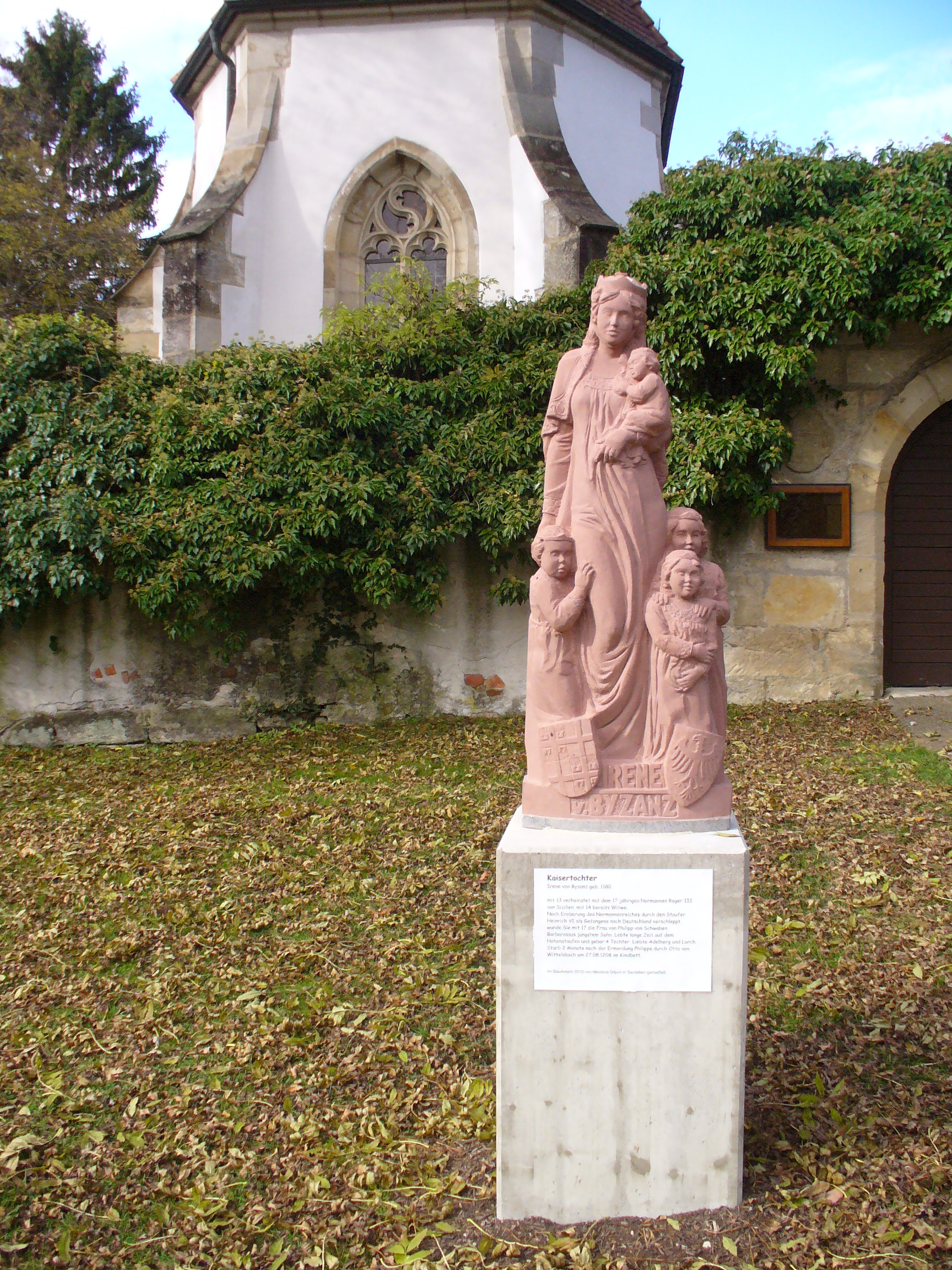 Adelberg Abbey, Irene's Monument